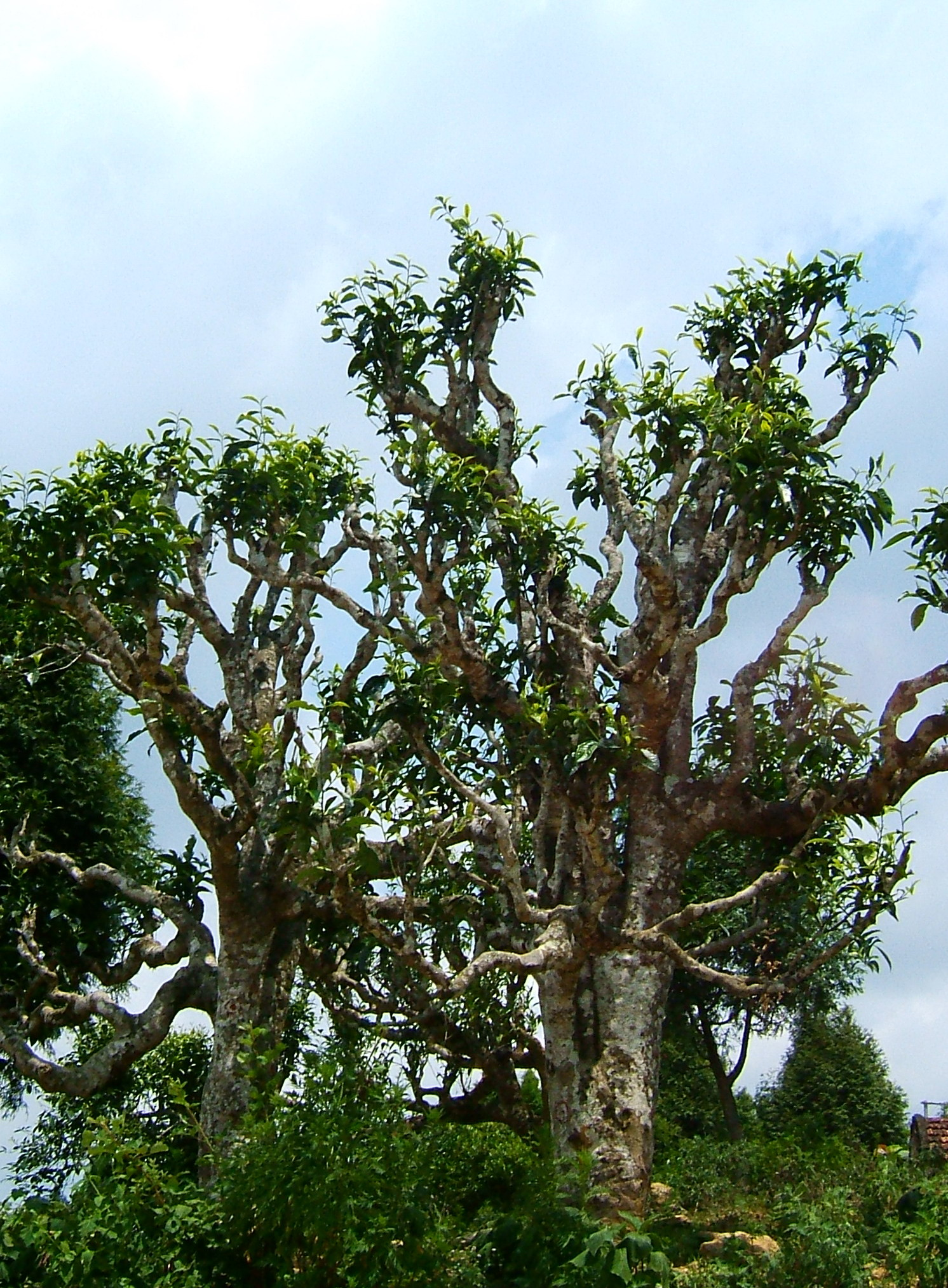 Very aged trees of Camellia sinensis (Tea) in Suối Giàng, Việt Nam